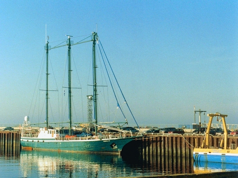 Sedna IV beside the Coriolis II at Rimouski harbour Qc. Photo taken with 35mm. and scanned.